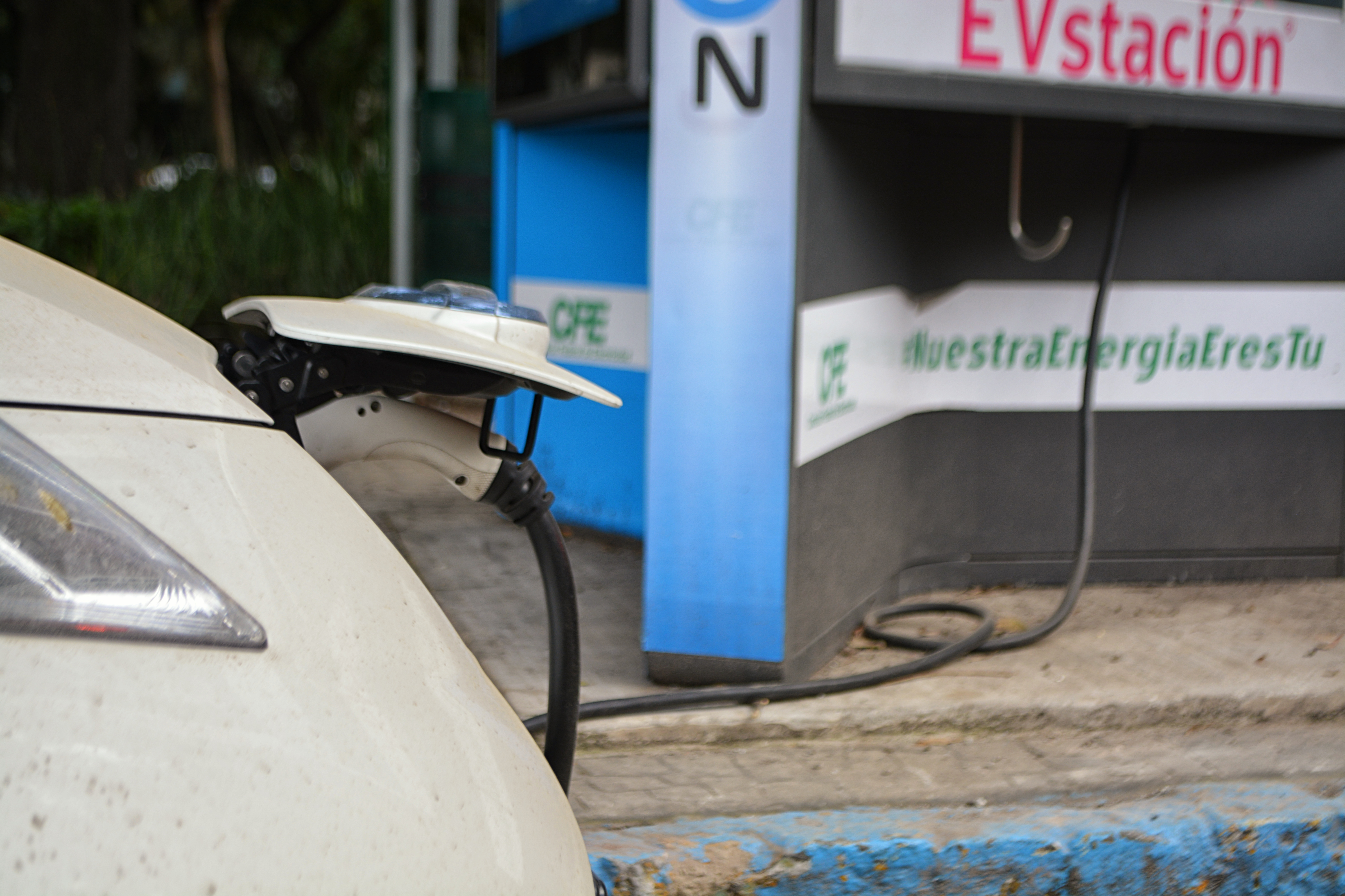 Plug of an electric car in a public charging station Parque España (Spain Park), Mexico City.